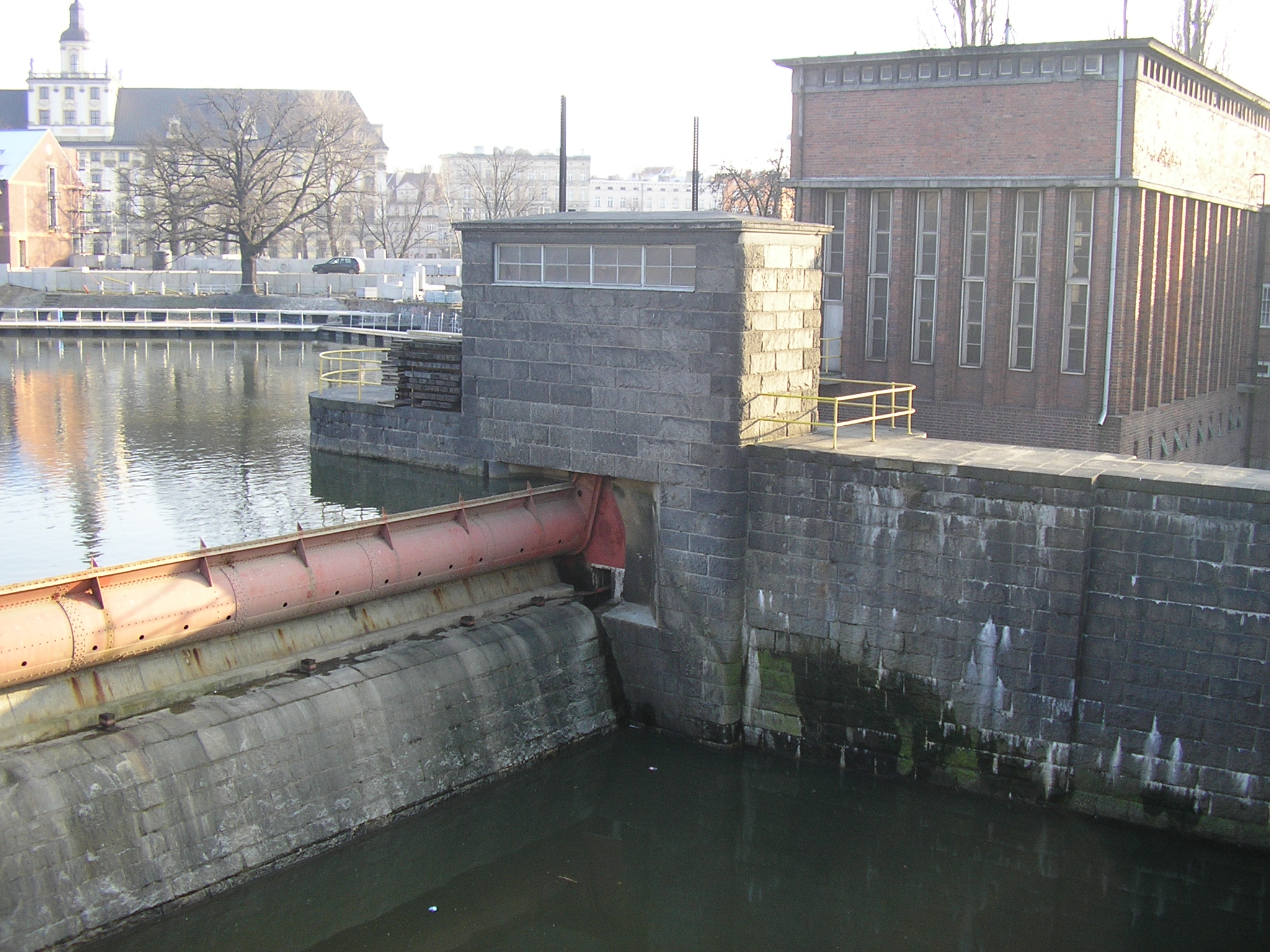 Northern hydroelectric plant on Oder River in Wrocław